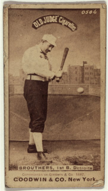 Dan Brouthers, Detroit Wolverines, baseball card portrait